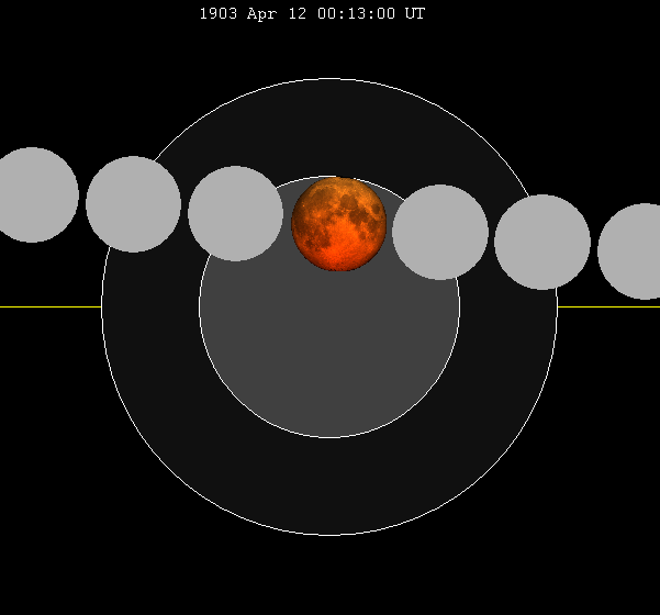 April 1903 lunar eclipse chart of moon's path through the earth's shadow. thumb